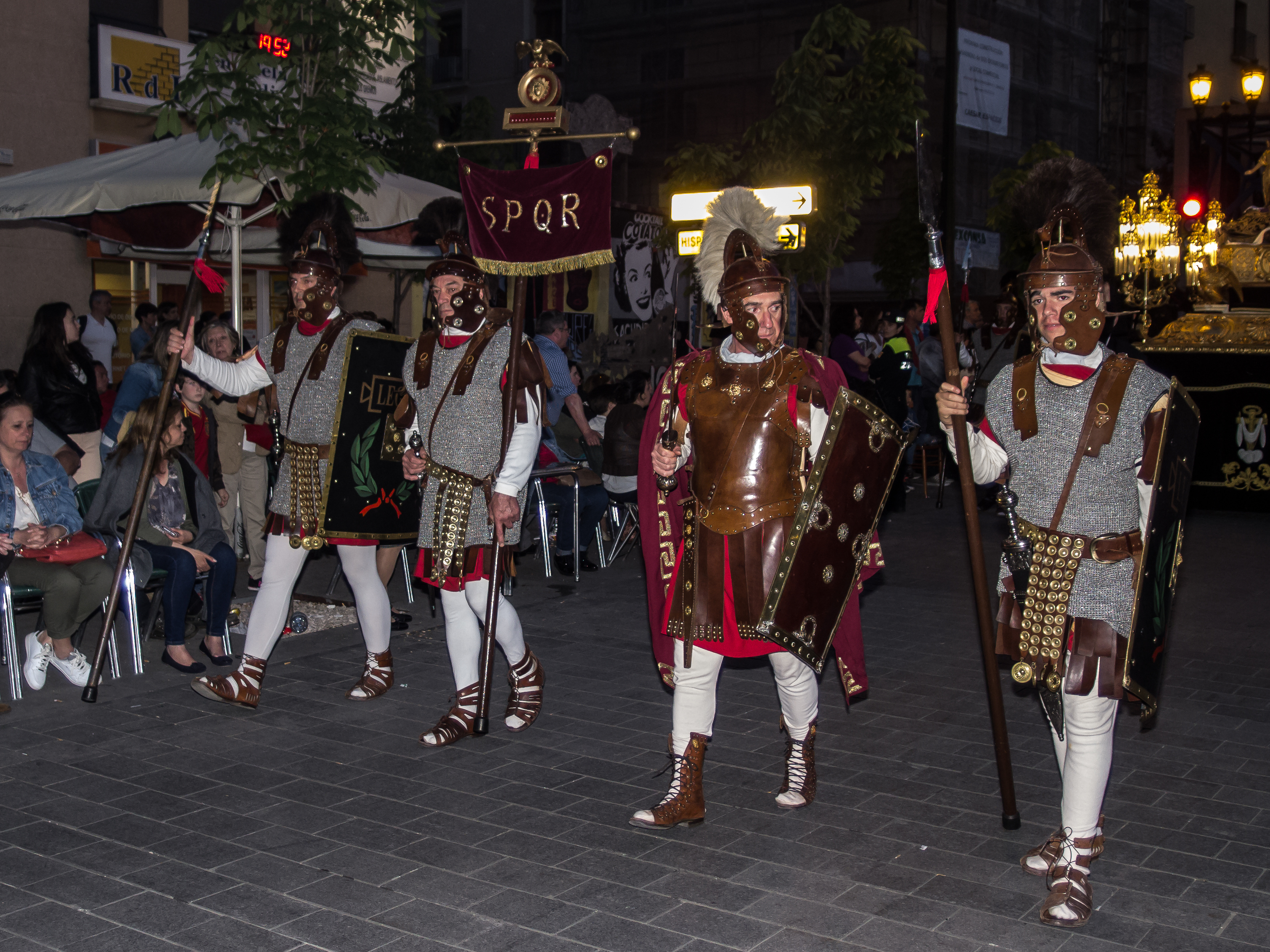 This is a photography of a Folklore festival in Spain (Wikidata id Q9075892).